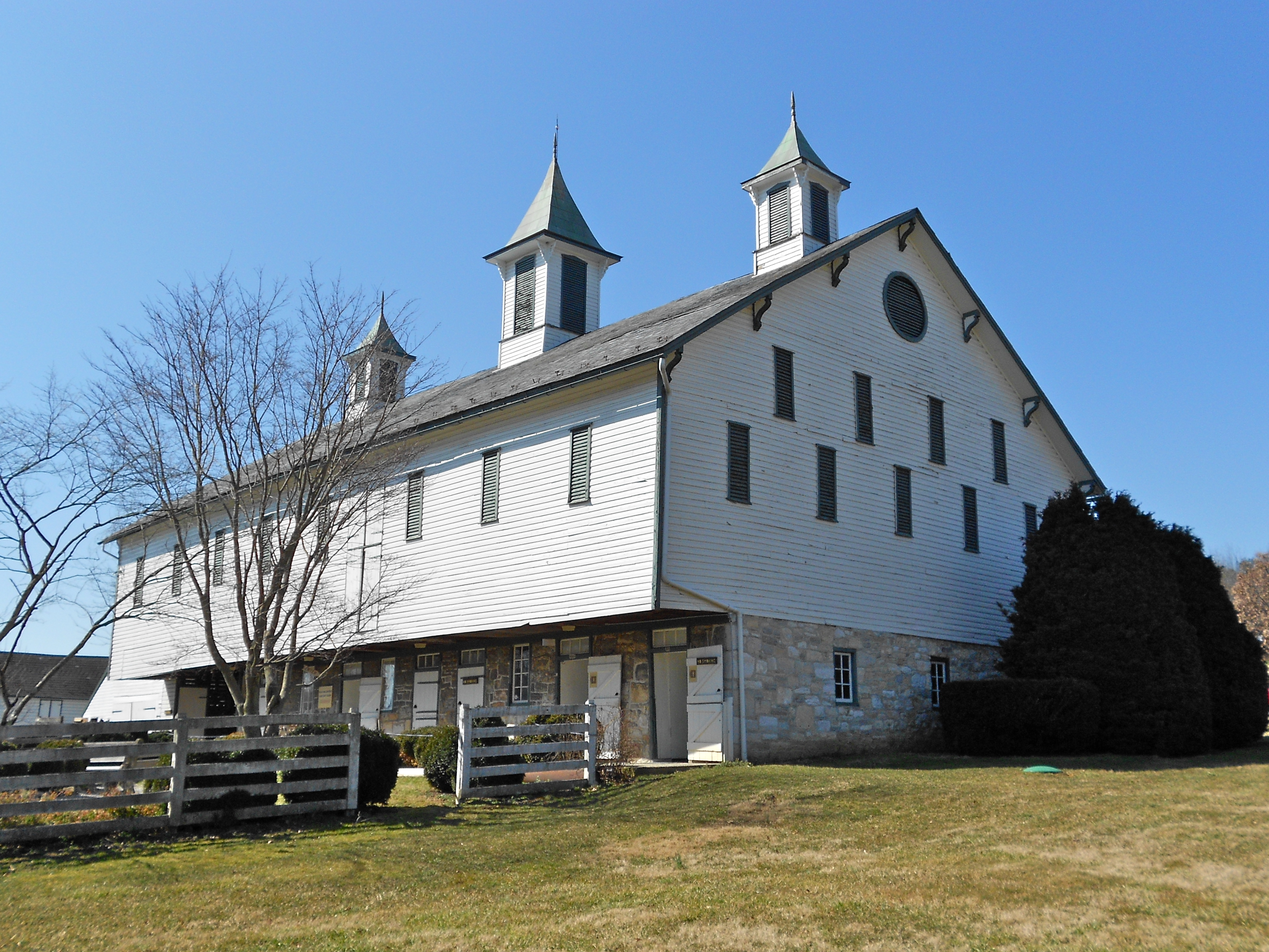 Barn at Royer-Nicodemus House and Farm on the NRHP since August 28, 1976. At 1010 East Main Street, Waynesboro, Franklin County, Pennsylvania. A bit east of town, out in the country.